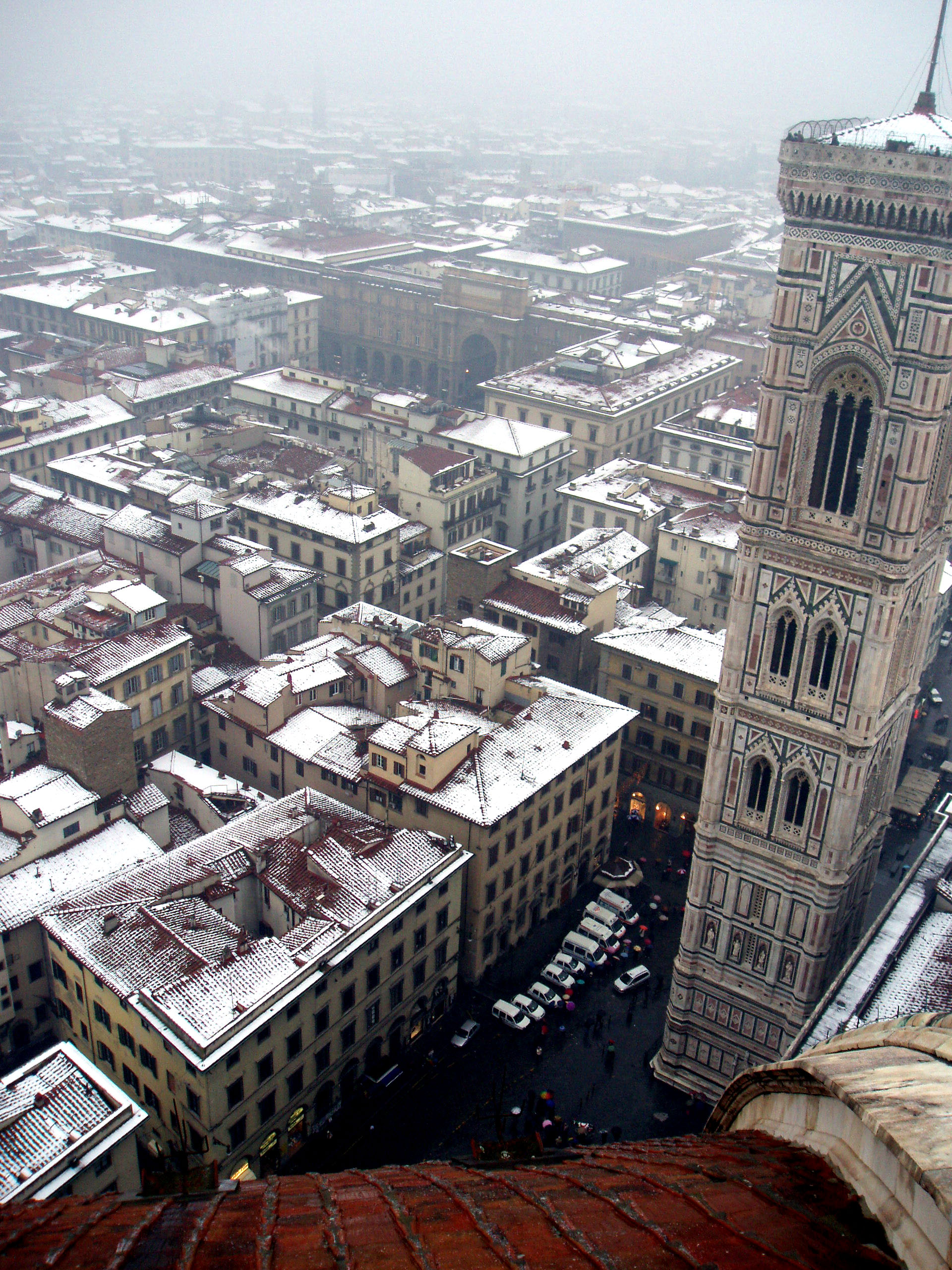 Il Duomo with snow